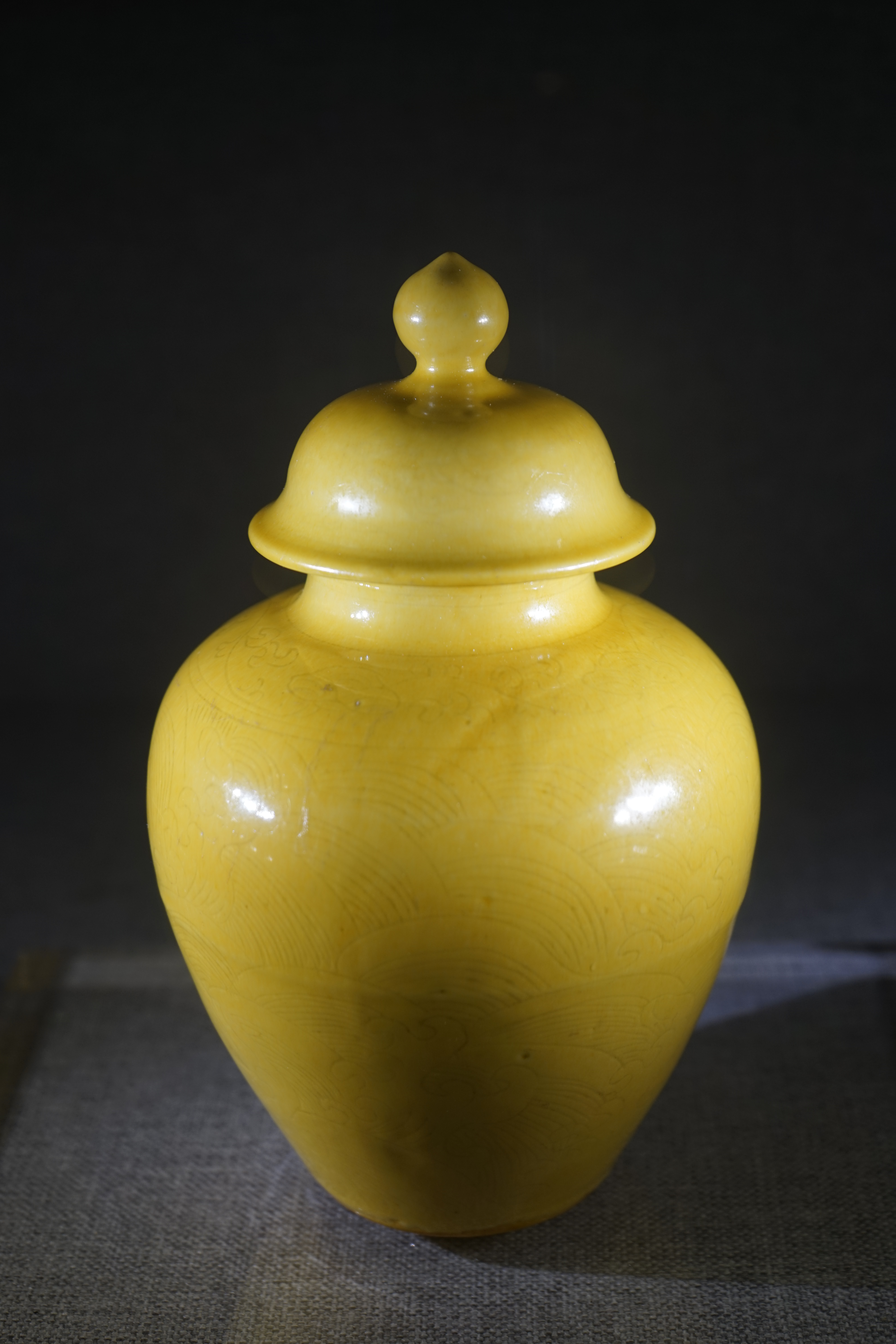 Yellow glazed pot and cover with hidden streak designs (黄釉隐纹盖罐). Jiajing period, Ming Dynasty. Excavated from Dadao tomb (大道墓葬), Huangzhou in 1993. First Grade Cultural Relic. It's the only pot with the same designs from Jiajing period official kiln in whole China.